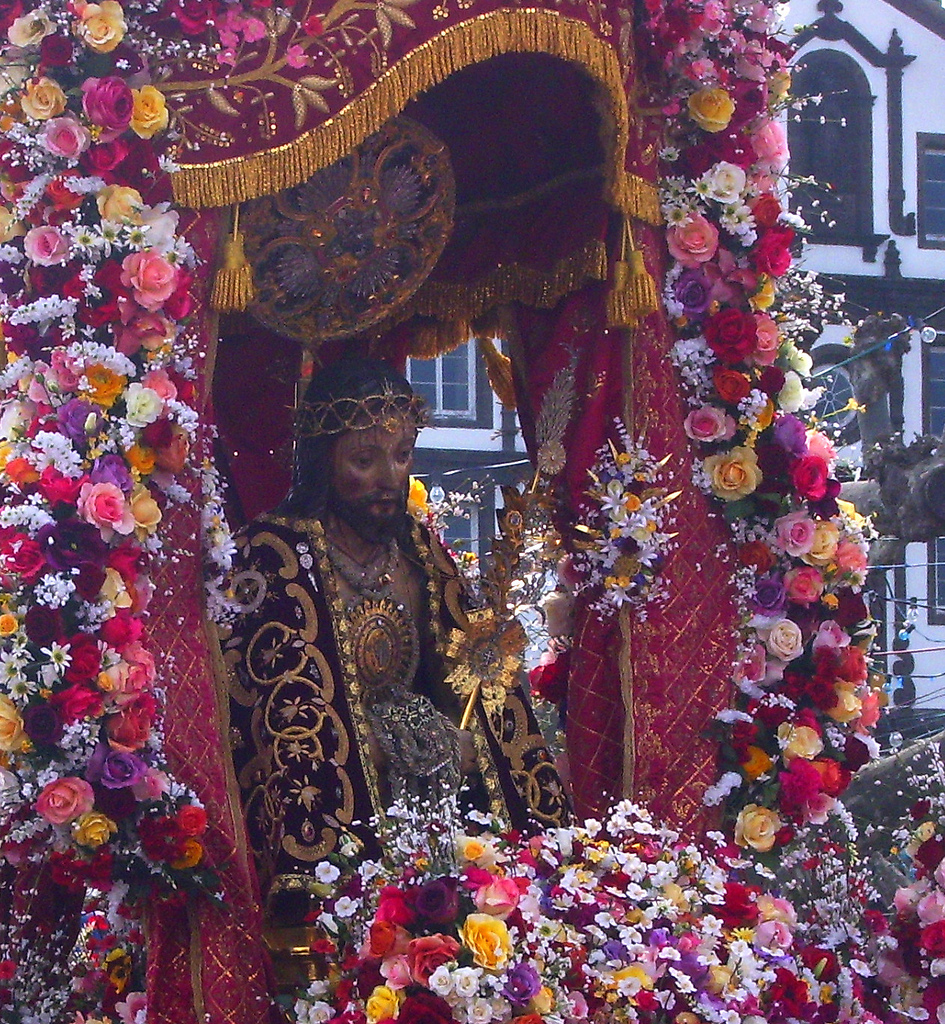 Senhor Santo Cristo dos Milagres, Ponta Delada, Azores. see this link for His story... or ...